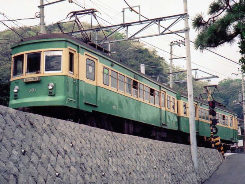 Enoshima Electric Railway type 300